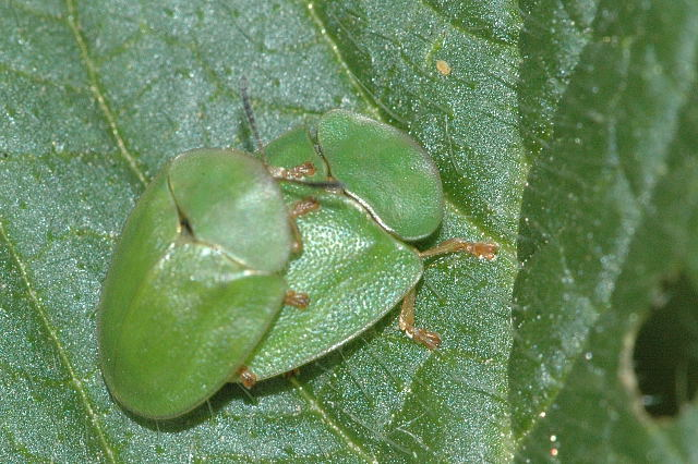 Picture taken in Commanster, Belgian High Ardennes . Species: Cassida viridis couple